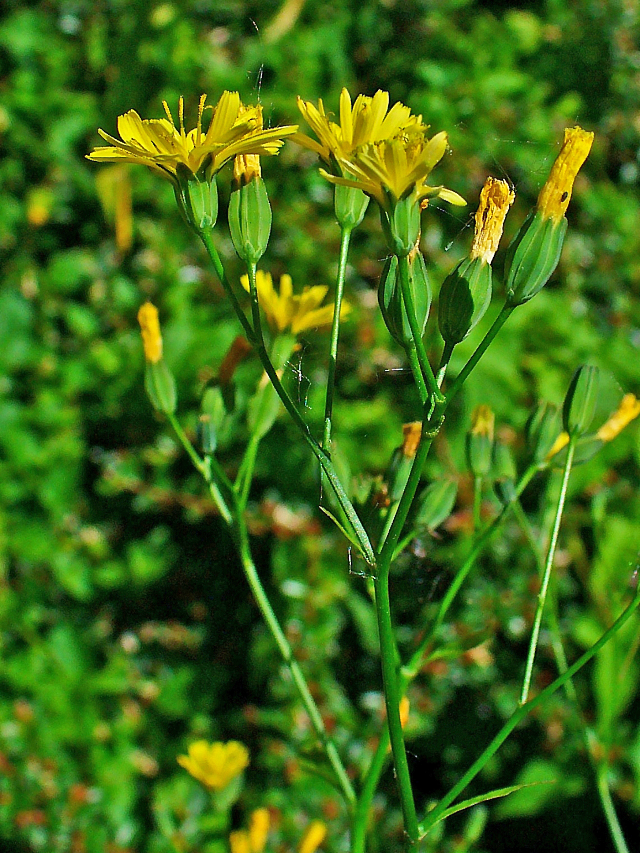 Lapsana communis, Asteraceae, Nipplewort, inflorescences; Karlsruhe, Germany. The plant is used in homeopathy as remedy: Lapsana communis (Laps.)